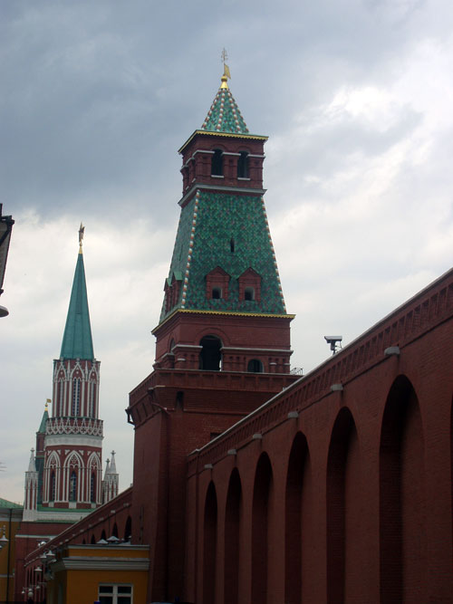 Moscow, the Kremlin. Senatskaya Tower.